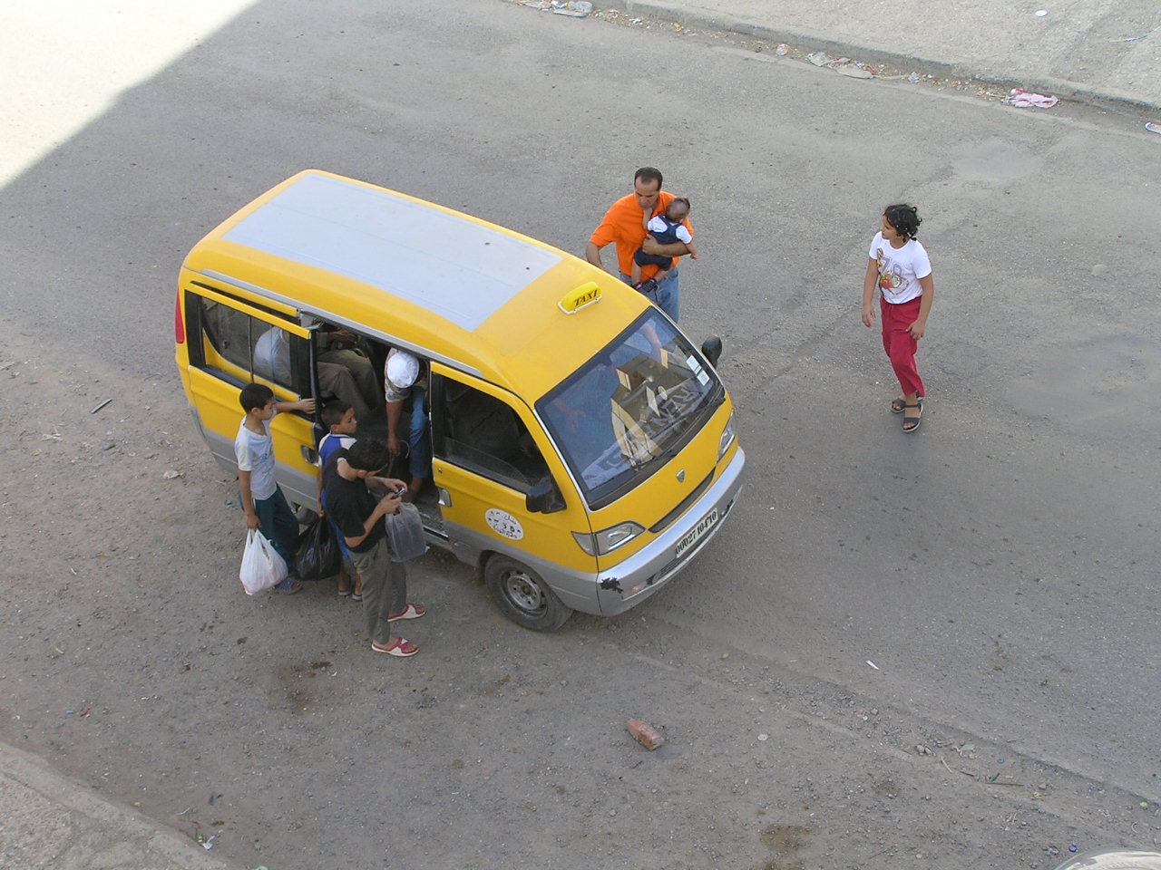 Hafei Motor Bus in Lakhdaria